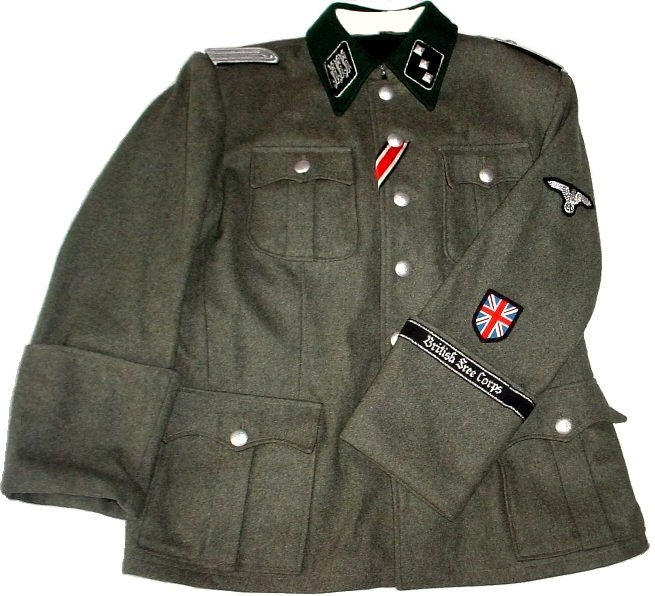 The Lord Of Boothferry's Waffen-SS British Free Corps Reproduction Tunic.